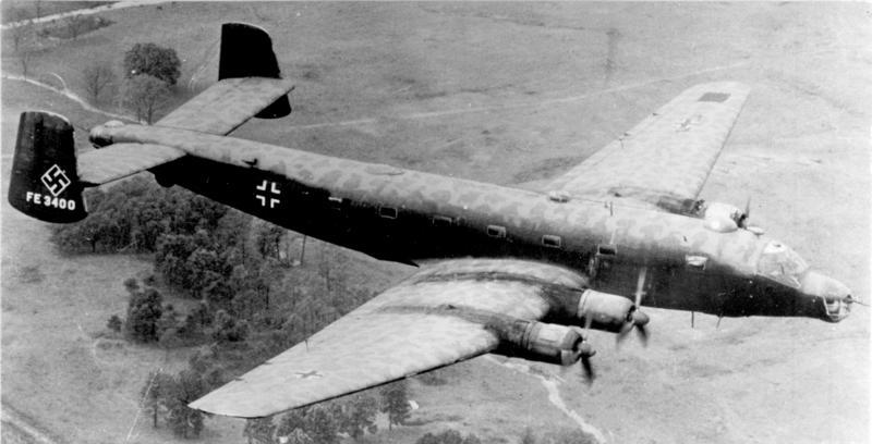 Ju 290 A-4, s/n 0165, PI+PS, was the prototype for the, renumbered "A3+HB", of KG 200. It had been equipped with attachments for FX 1400, Hs 293, and Hs 294 missiles, and fitted with FuG 203e radar, and was surrendered to the USA. Renamed "Alles Kaputt", and numbered "FE 3400", it was flown to the USA by USAAF Colonel Harold E. Watson from Orly, Paris to Wright Field, Ohio (USA), on 28 July 1945, via the Azores. The captured aircraft, with its German insignia repainted, was a frequent performer at air shows at Freeman Field and Wright Field. When the aircraft was scrapped at Wright Field in 1946, an plastic explosive device of German manufacture was discovered in the wing near to a fuel tank. Title: Flugzeug Junkers Ju 290 A-7 Extra information: Flugzeug Junkers Ju 290 A-7 (Leitwerkskennung FE 3400) im Flug Factual corrections and alternative descriptions are encouraged separately from the original description. Additionally errors can be reported at this page to inform the Bundesarchiv. Original historic description